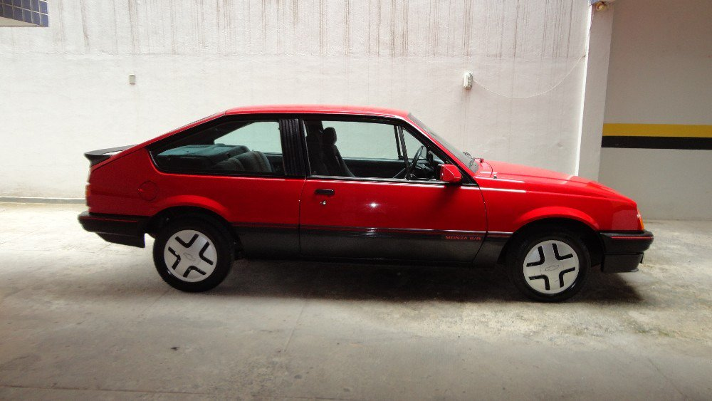 Monza SR Hatch Brazilian Edition